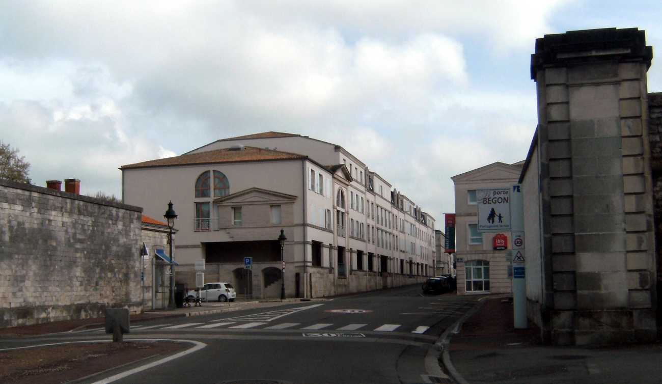 Porte Béligon - Zone 30 à Rochefort